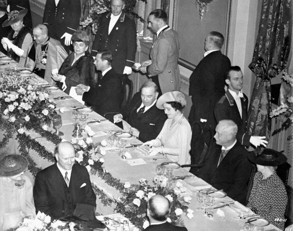 King George VI and Queen Elizabeth at the Château Frontenac. [L-R]: Mme. Patenaude, Cardinal Villeneuve, Mme. Lapointe, King George VI, Rt. Hon. W.L. Mackenzie King, Queen Elizabeth, Hon. E.L. Patenaude, Hon. W.D. Euler. (Quebec City, Canada).